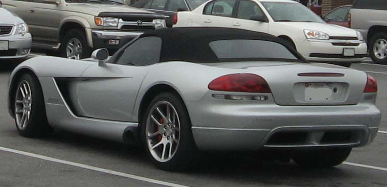 2003-2007 Dodge Viper photographed in USA.